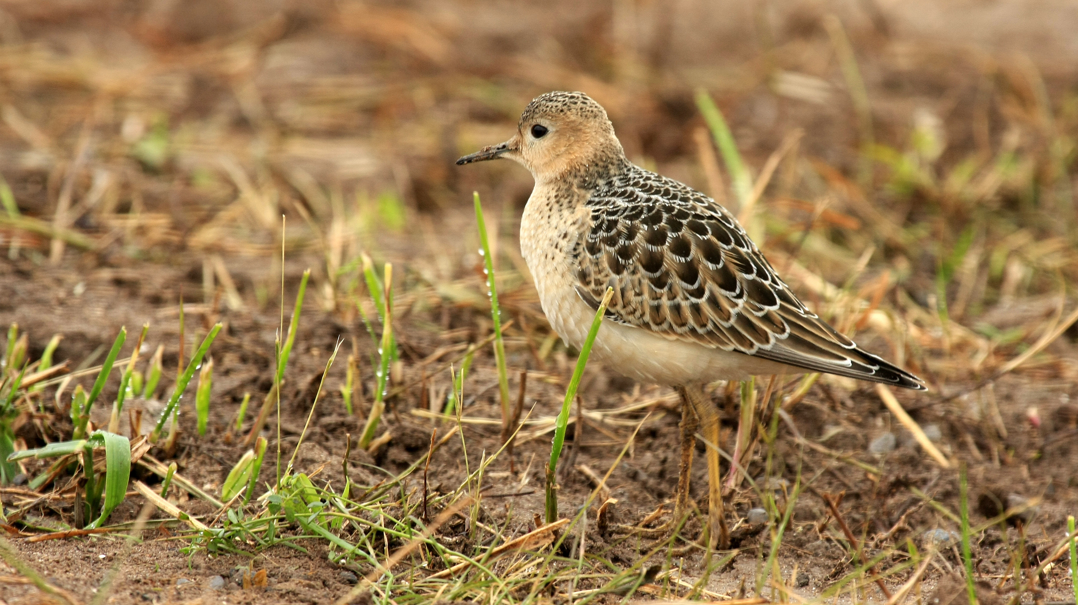 A Buff-breasted Sandpiper in Montezuma, New York, USA.